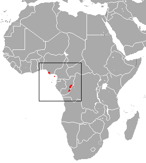 Pennant's Colobus (Procolobus pennantii) range